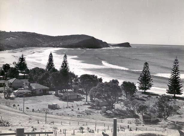 Avoca beach, Gosford Dated: c. 1950 Digital ID: 12932_a012_a012X2446000096 Rights: We'd love to hear from you if you use our photos. Many other photos in our collection are available to view and browse on our website using Photo Investigator.